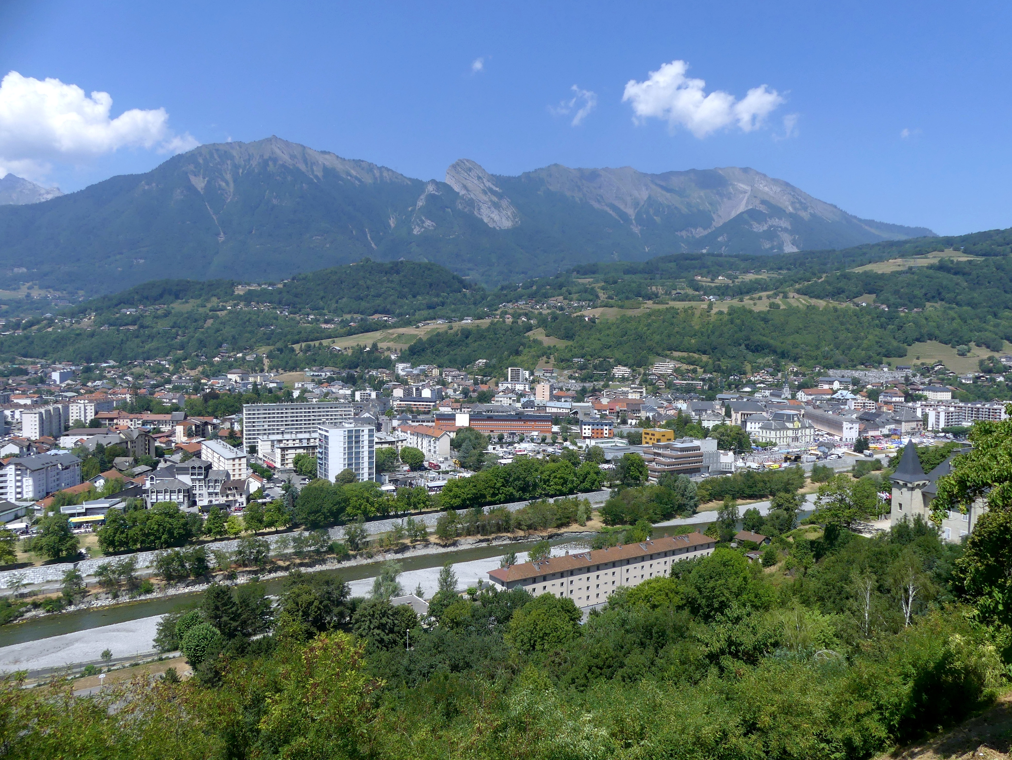 General sight of Albertville from the belvedere of Conflans medieval village (nowadays neighborhood of Albertville), in Savoie, France.